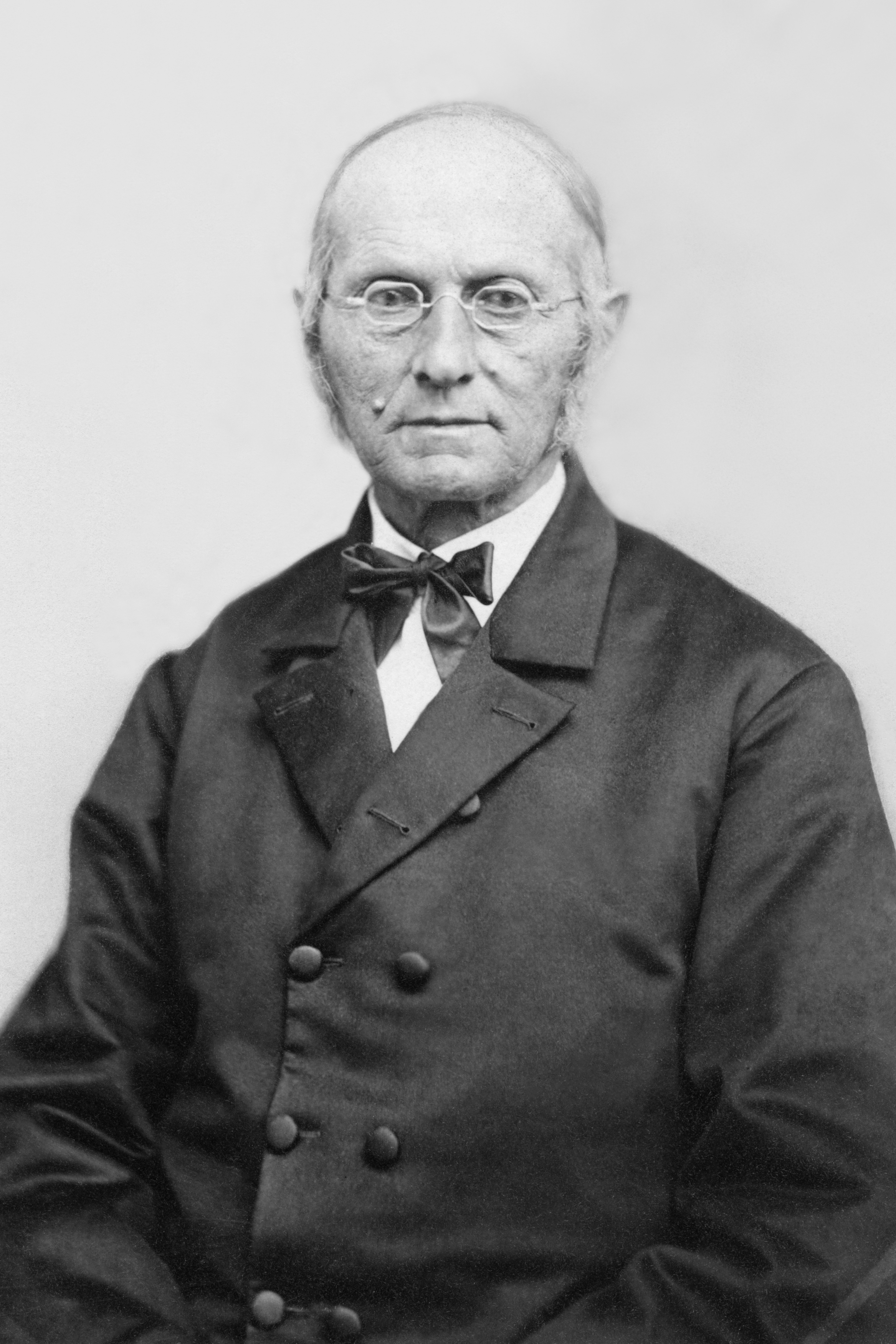 Joseph Bates, cofounder of the Seventh-day Adventist Church